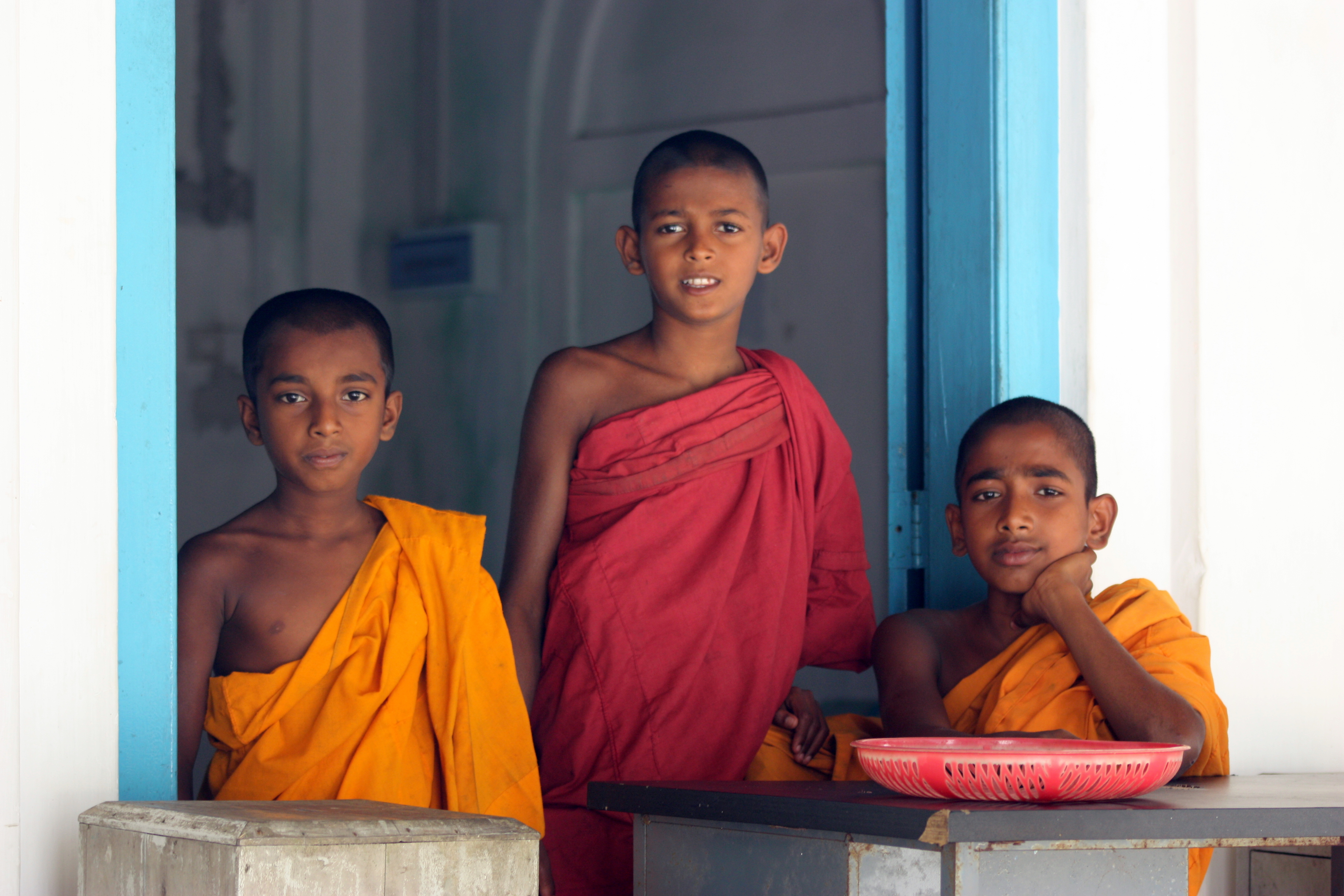 Three of the temple novices at the Koth Duwa temple, on the Maduganga in Sri Lanka.